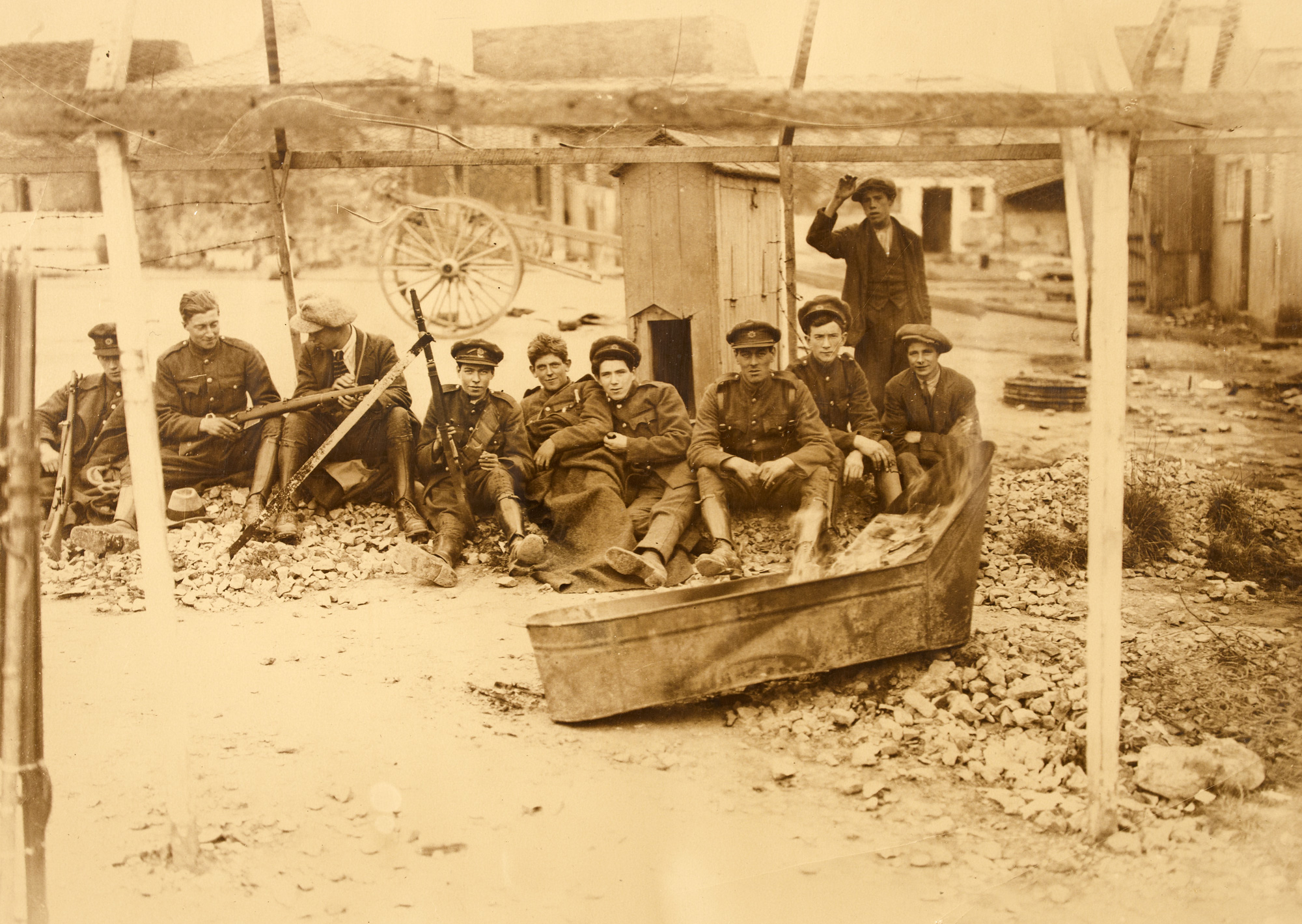 National Army troops at the South Western Front during the Irish Civil War. We've discovered (mostly through all of your efforts here on Flickr) that some of our W.D. Hogan collection dates are not as secure as we thought, so thanks to sbreathnach for giving us a location for this one at the Ordnance Barracks, Mulgrave Street, Limerick and a date of Friday 21st or Saturday 22nd July 1922! Date: Friday 21 or Saturday, 22 July 1922 NLI Ref.: HOG123